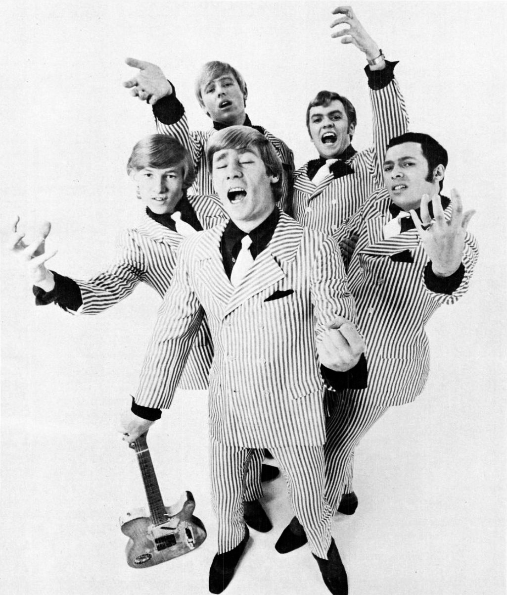 Trade ad for Mandala's single "Opportunity".To better adapt it to his respective Wikipedia article, the ad was cropped and cleaned in a graphics editing program. The original can be viewed at the source below.